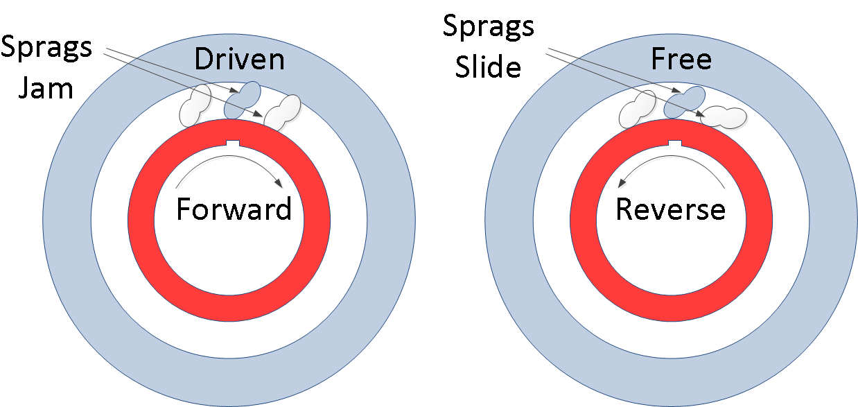 A sprag clutch has 2 states, with the sprags either jammed or free.